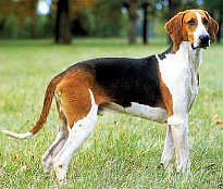 Dog of the breed Small French-English Hound